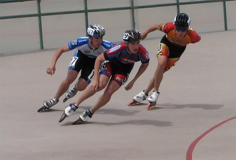 Chris Creveling (99), Justin Stelly (117), and another skater round a turn at the 2007 US Outdoor Inline Speed Skating Championship.